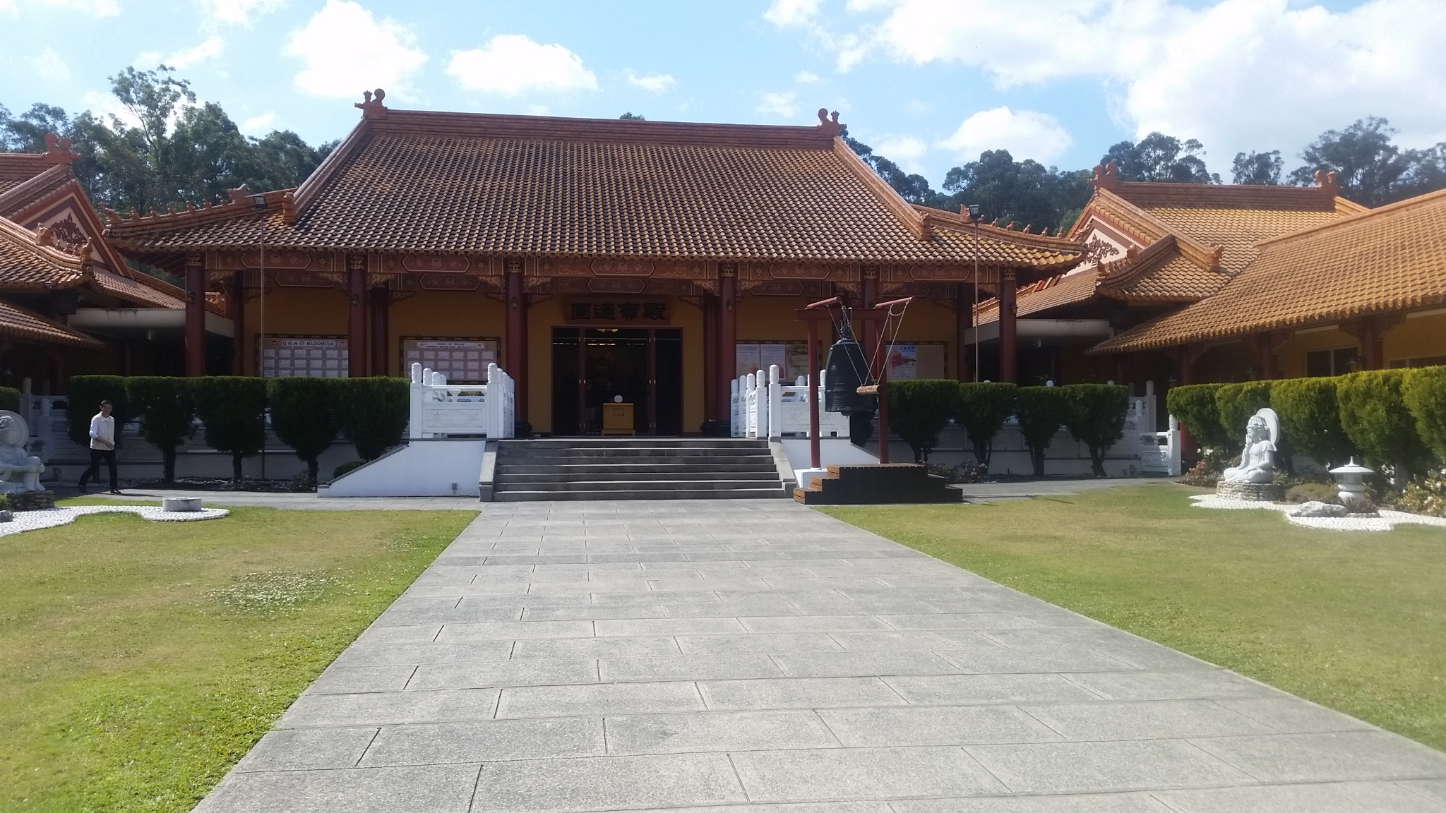 Chung Tian Mainbuilding overview - it was constructed in 1992 using traditional Chinese Buddhist architecture – it is situated between Brisbane and Logan, Queensland. Surrounded by nature